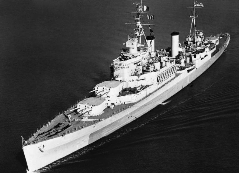 British light cruiser HMS UGANDA underway.